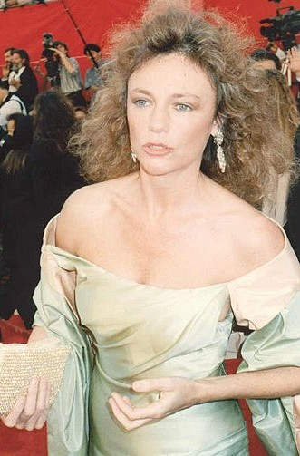 Jaqueline Bisset on the red carpet at the 1989 Academy Awards, March 29, 1989 - Permission granted to copy, publish, broadcast or post but please credit "photo by Alan Light" if you can; cropped from Image:Jaqueline Bisset on the red carpet at the 1989 Academy Awards.jpg